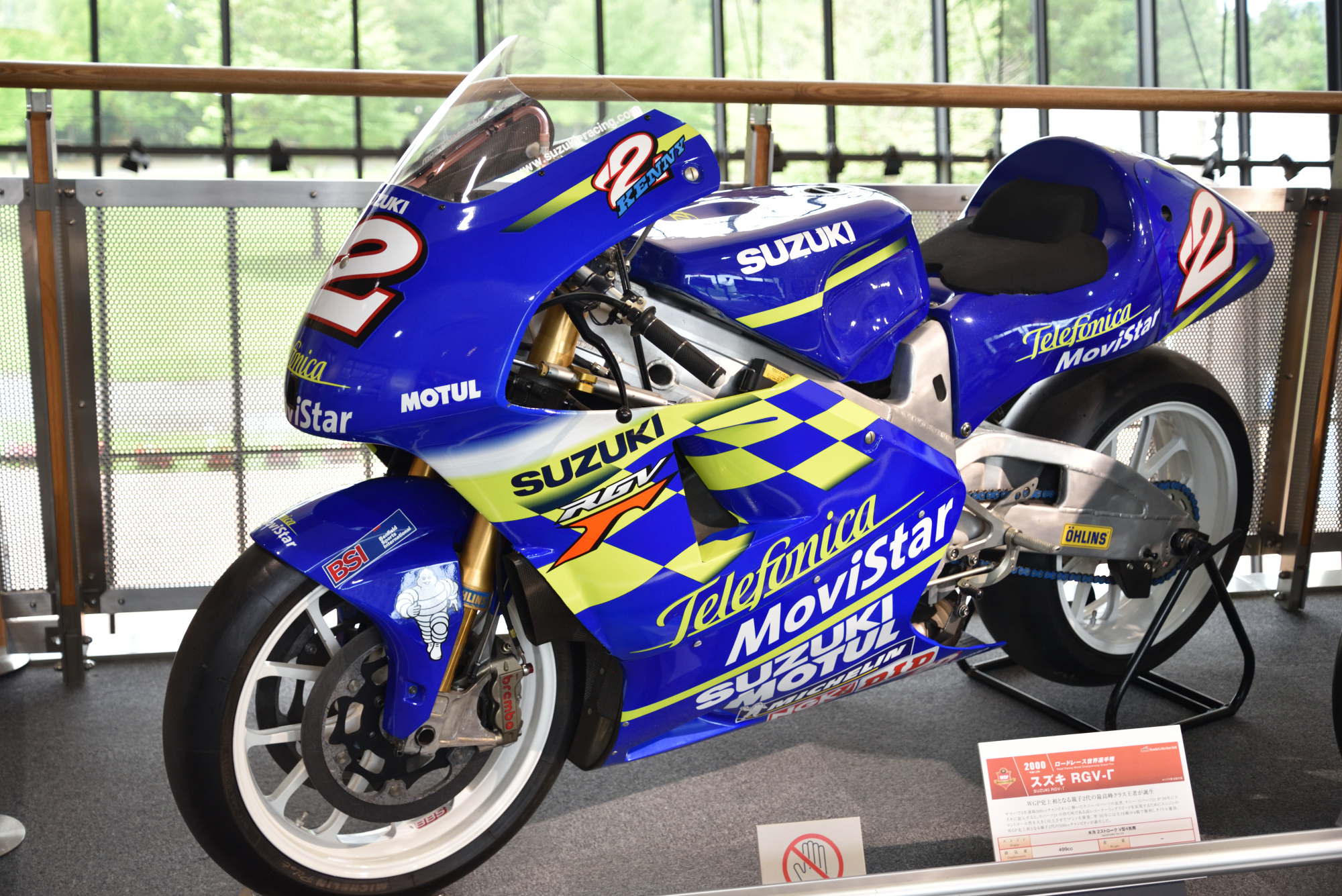 Suzuki RGV Γ 500 (2000, Kenny Roberts Jr.)